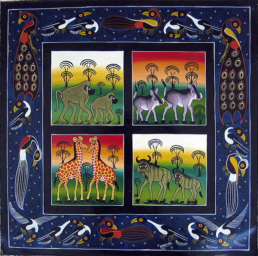 TT4786 by Emilias - Tingatinga art (76x76cm), Oil on canvas